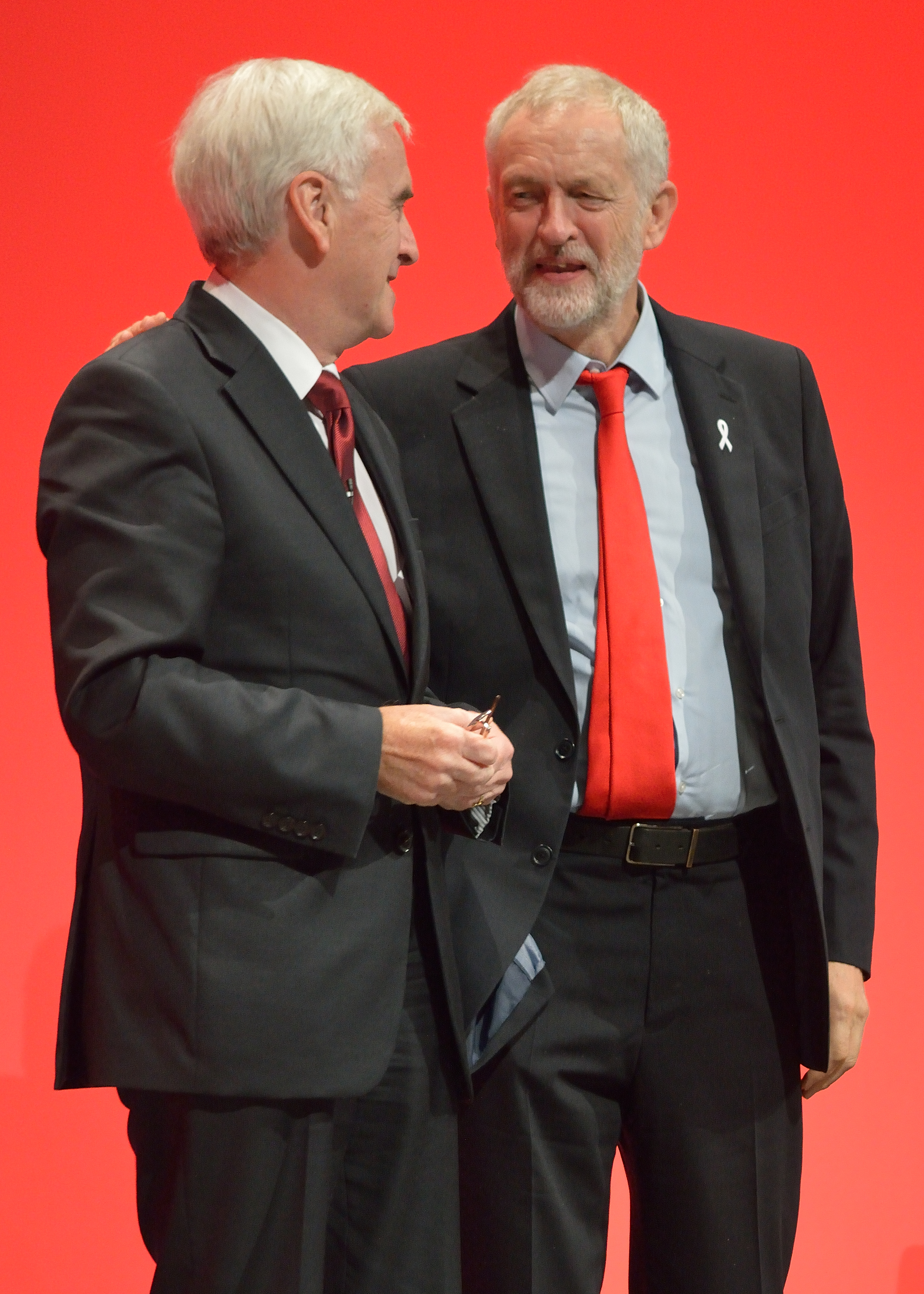 John McDonnell and Jeremy Corbyn, after McDonnell gave his Shadow Chancellor of the Exchequer speech at the 2016 Labour Party Conference in Liverpool.